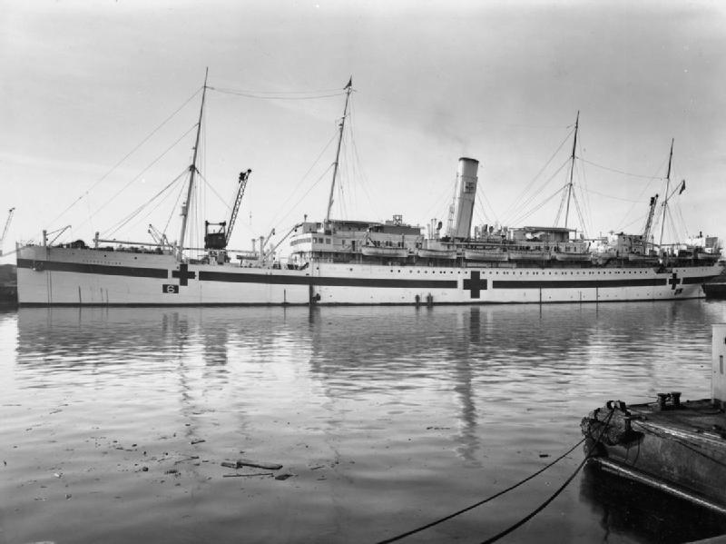 Hmhs Oxfordshire At a quay.